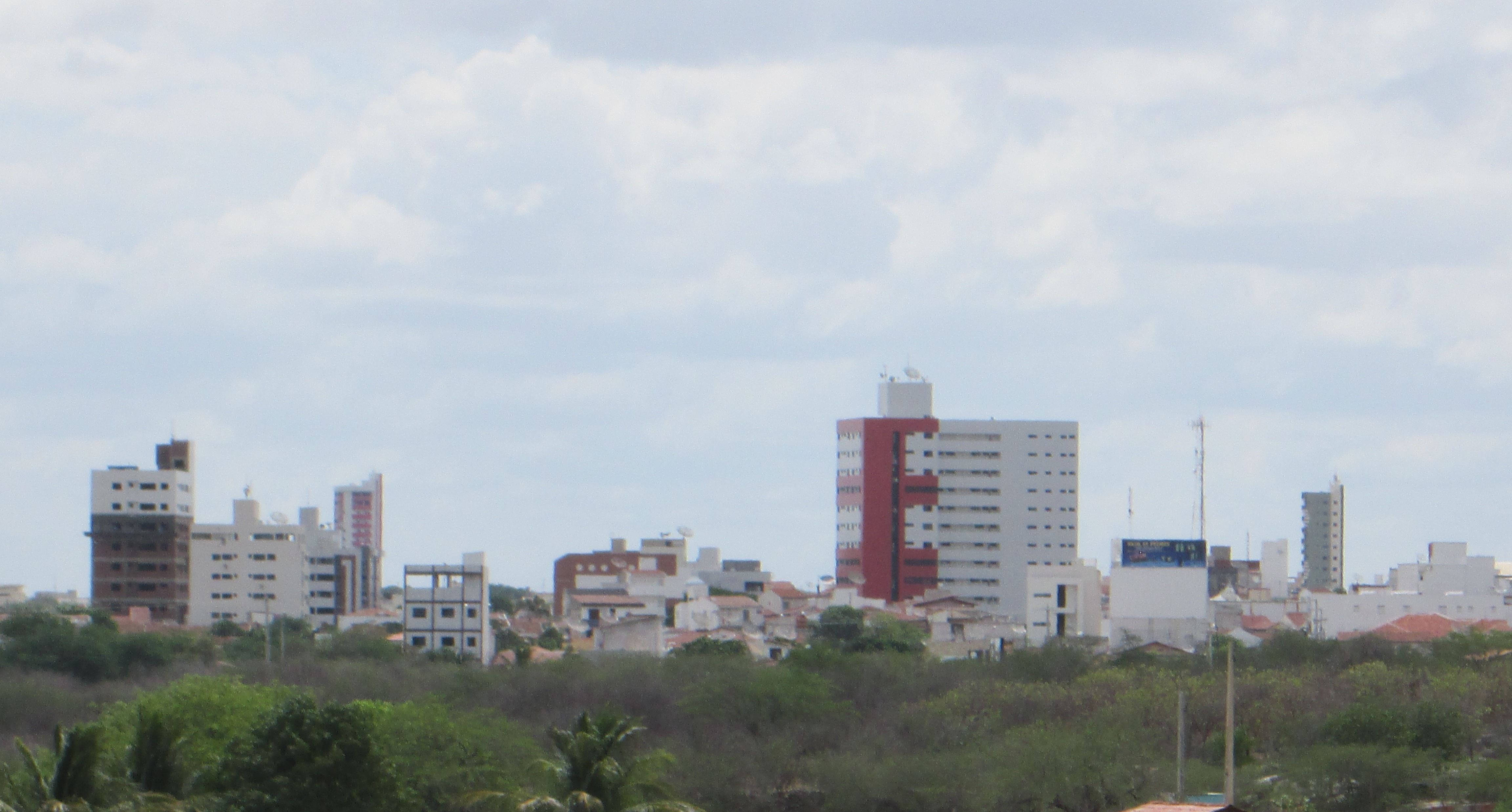 Centro de Caicó.